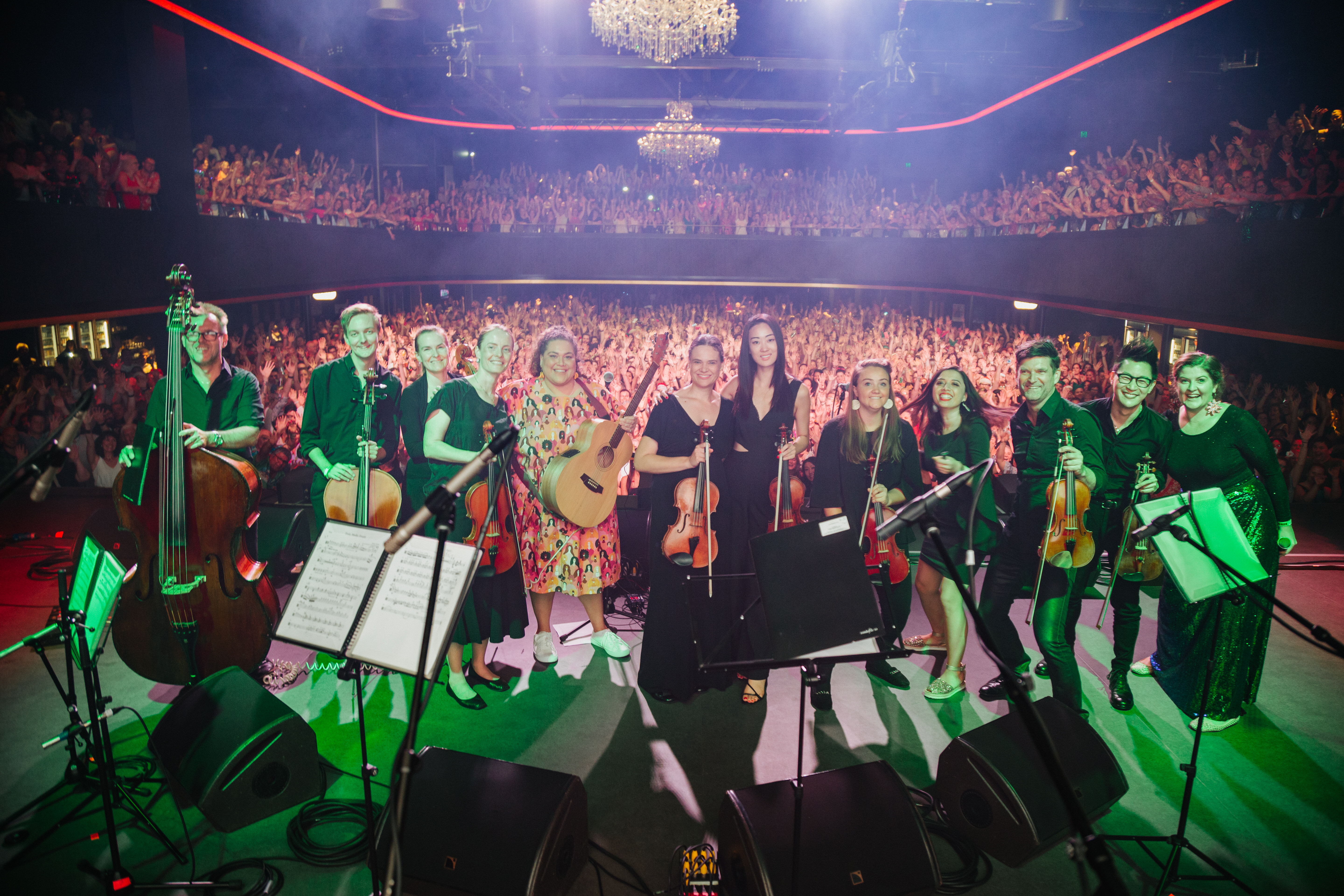 Waveney Yasso (4th from left), Astrid Jorgensen (9th from left) and Megan Bartholomew (far right) Along with Camerata (Queensland's Chamber Orchestra) After performing at Fortitude Music Hall (Brisbane), raising over $134,000 for Women's Legal Services Queensland.